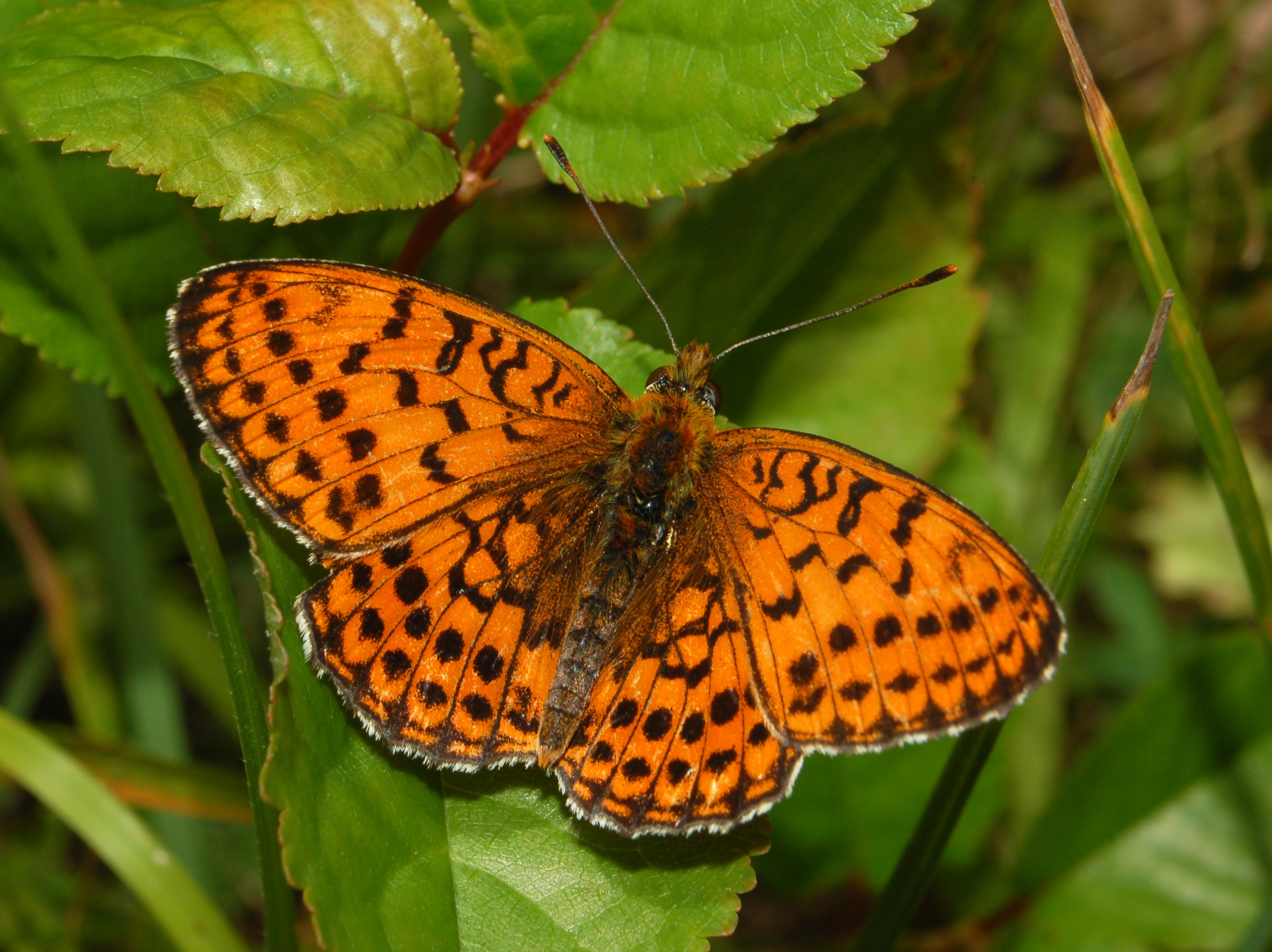 "Brenthis hecate". Piani di Praglia, Genova, Italy